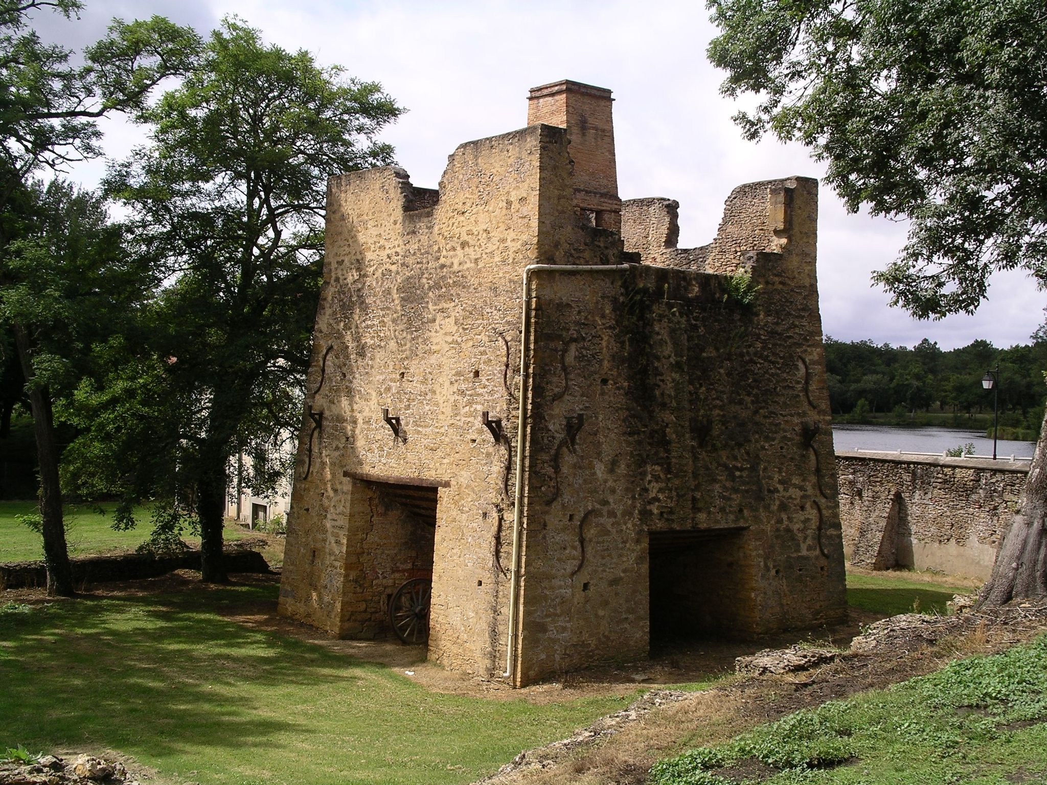 Blast furnace in Brocas, Landes, France. Built in 1833.